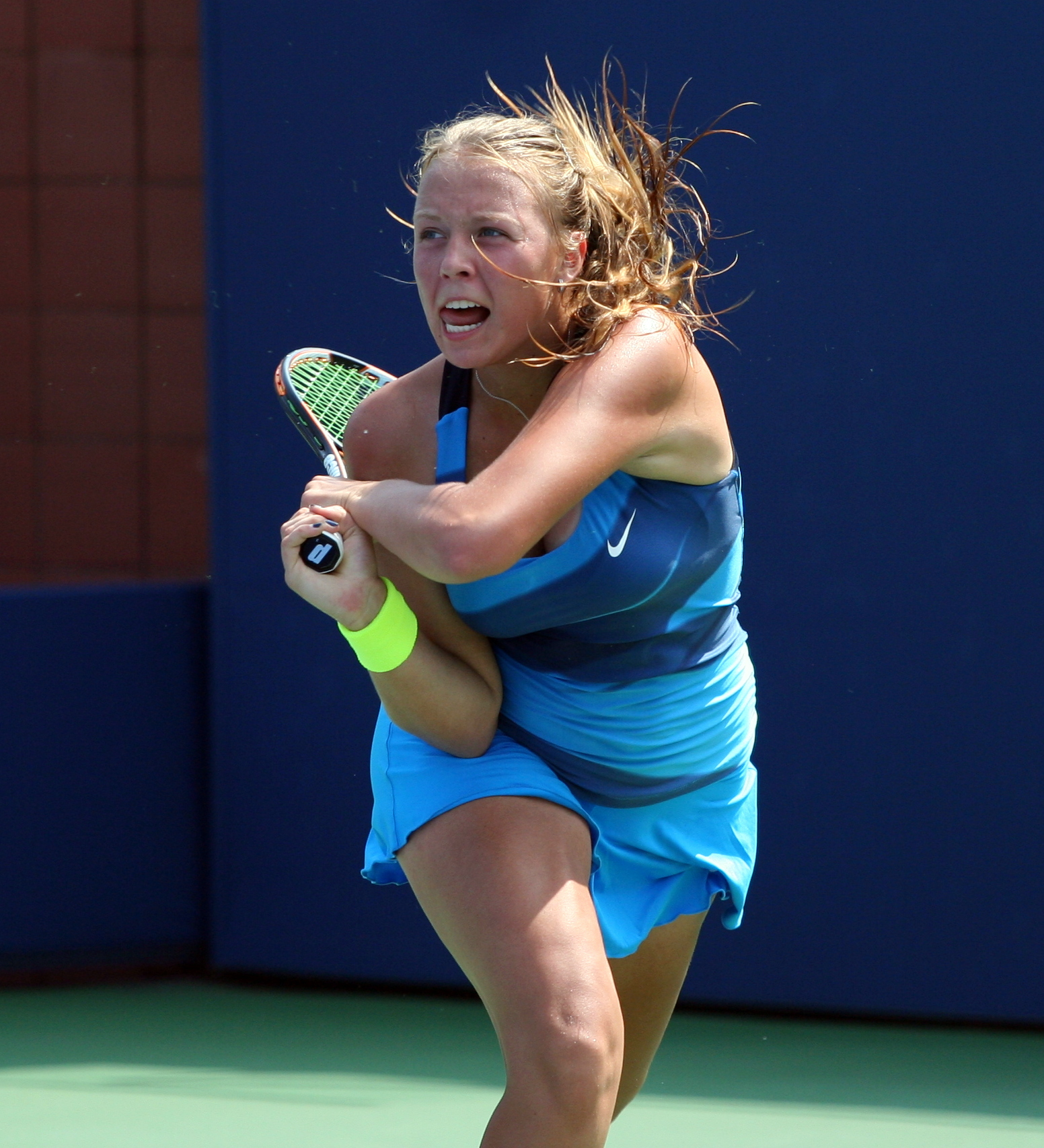 Anett Kontaveit at the 2012 US Open